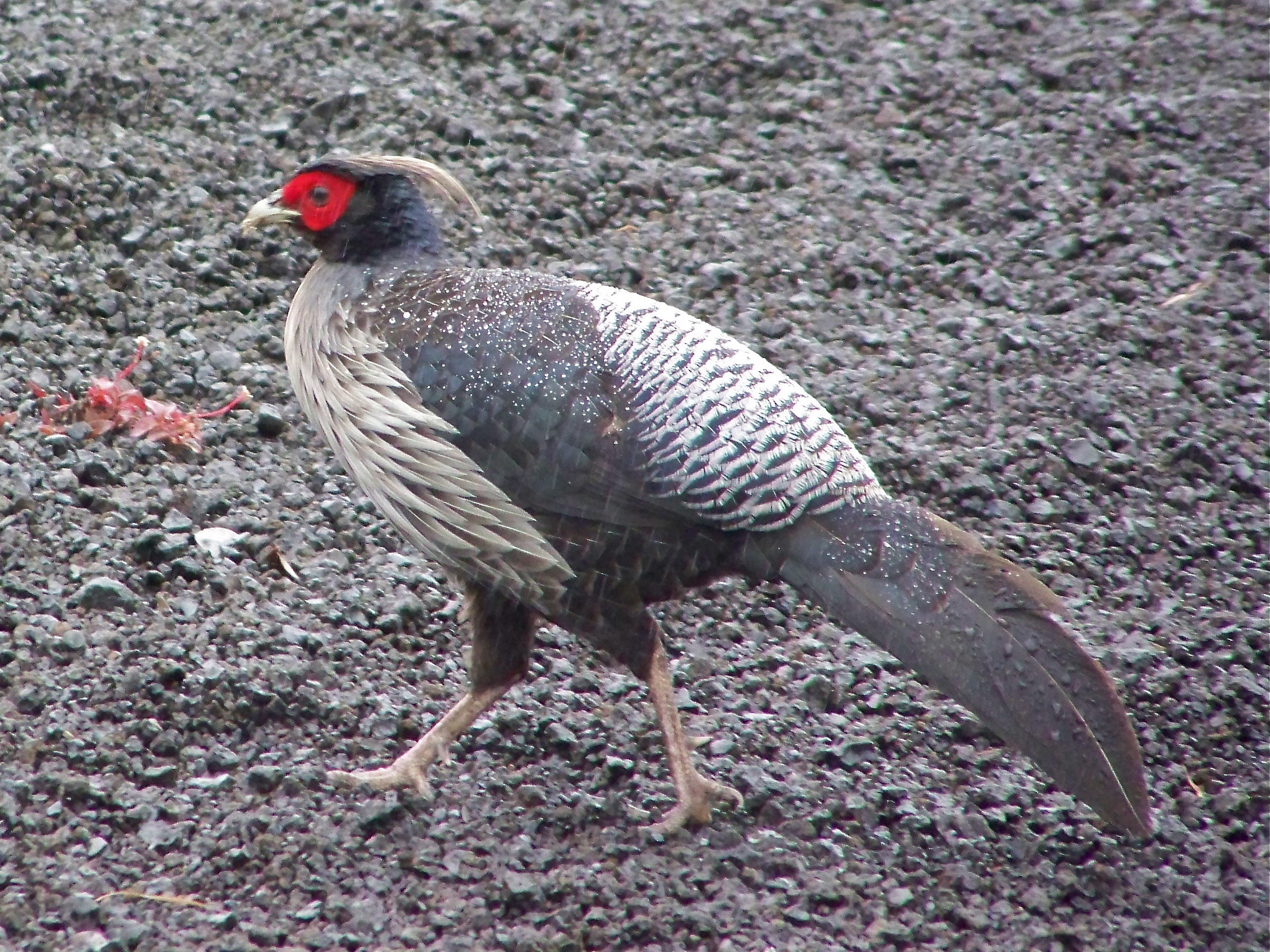 Kalij Pheasant near Devastation Trail, Hawaii Volcanos National Park